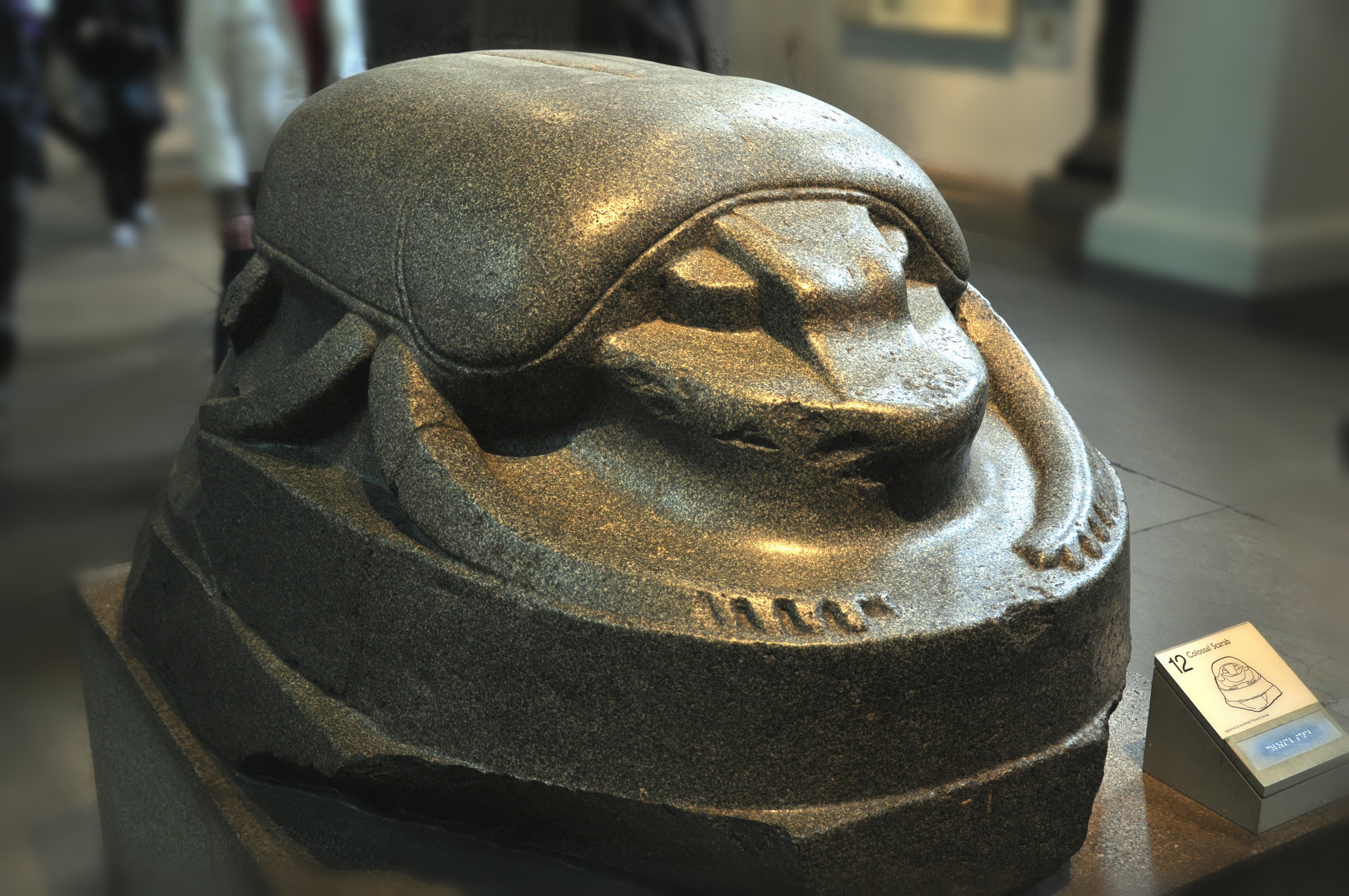 This is one of the largest known sculptures of a scarab with a length of about 1.5m (4.92 ft). Its probably ptolemaic from 332-30 BC. Its made of green diorite and was found in Istanbul.